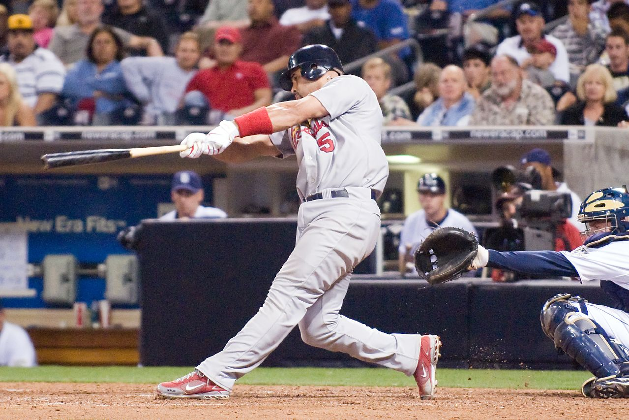 Albert Pujols hits a deep drive for a home run May 19, 2008.